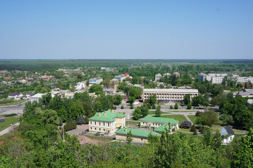 View on Bohdan Chmel'nyćkyj Museum in Čyhyryn